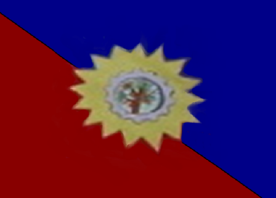 My version of the flag of Cuá.